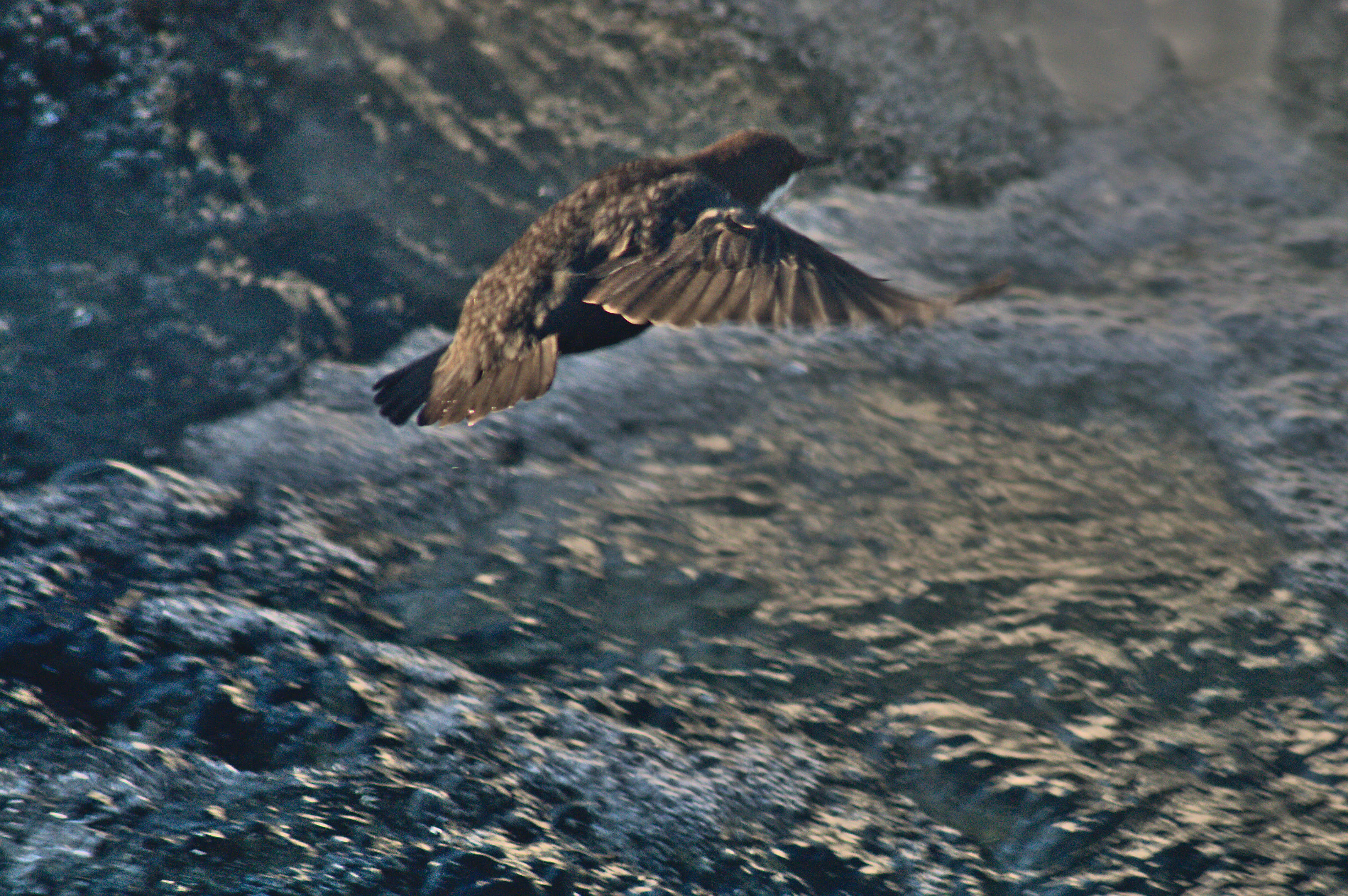 White-throated dipper (Cinclus cinclus), Eskilstuna, Sweden. February 2015.